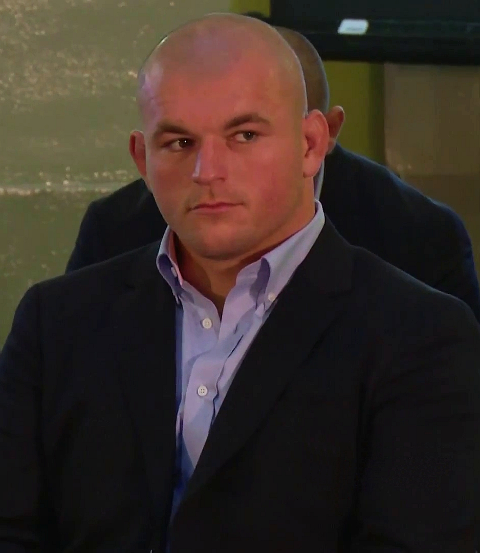 Romanian international rugby union player, Alexandru Țăruș, is seen during a press conference in September 2015 shortly before departing for the 2015 Rugby World Cup